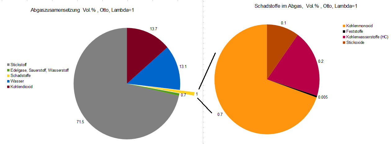 Composition of raw exhaust of Otto engine at Lambda=1